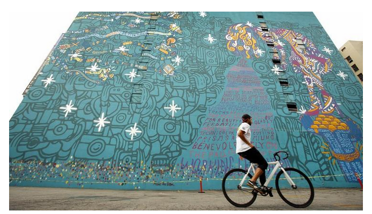 foster the people mural painting by LeBA, vyal, and Danial Lahoda